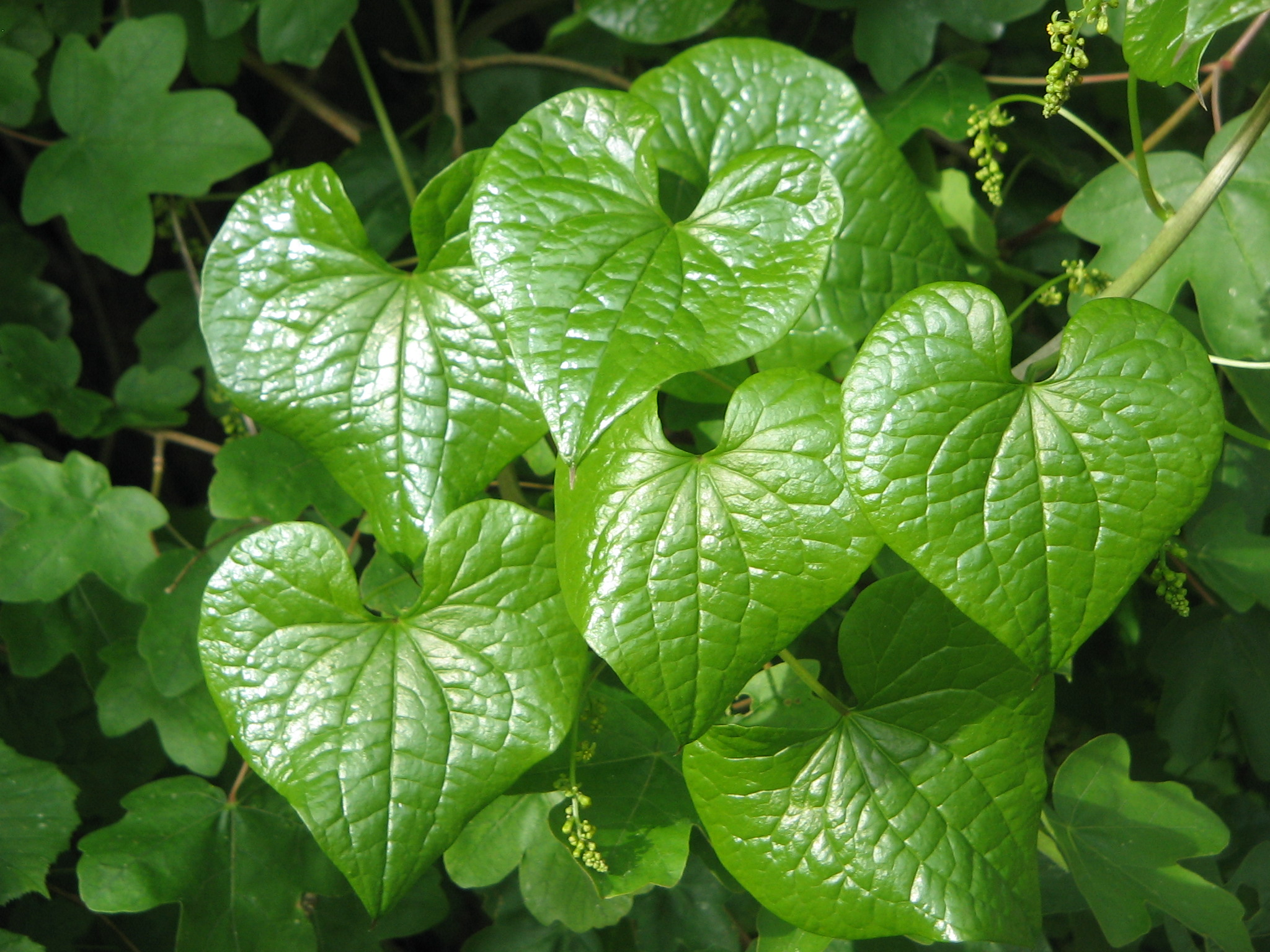 Tamus communis